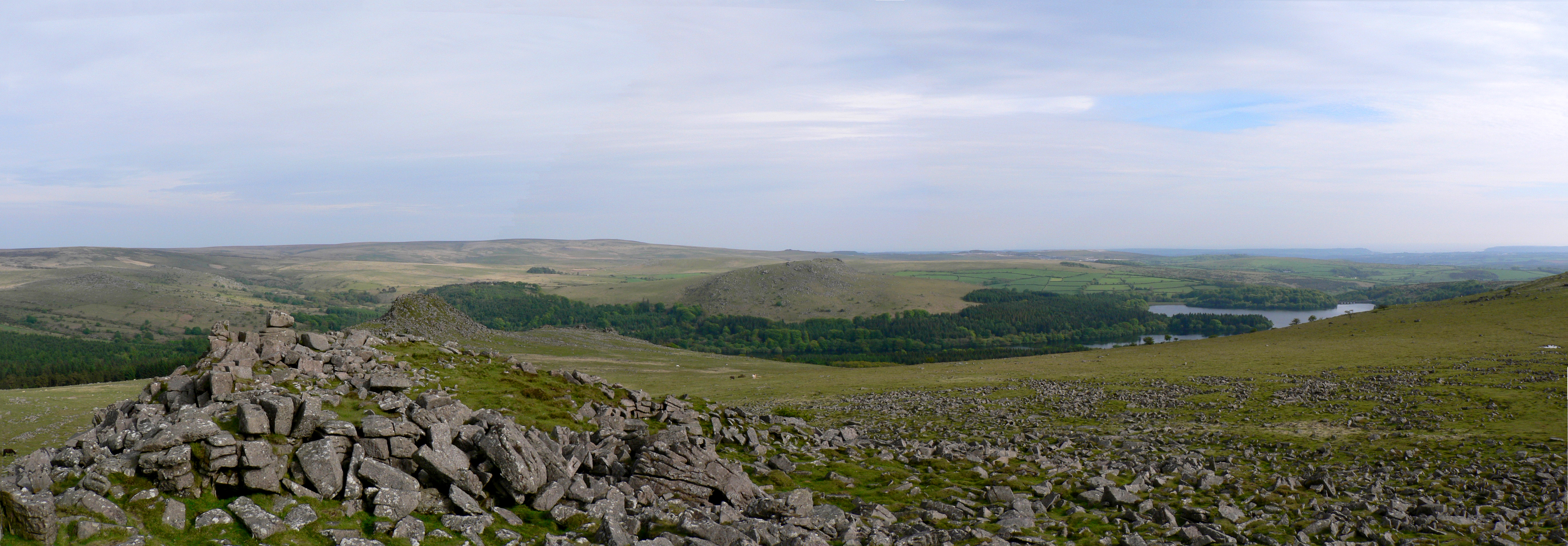 Rough landscape on Dartmoor. Taken on May 25, 2005. Looking towards Burrator reservoir & Plymouth.